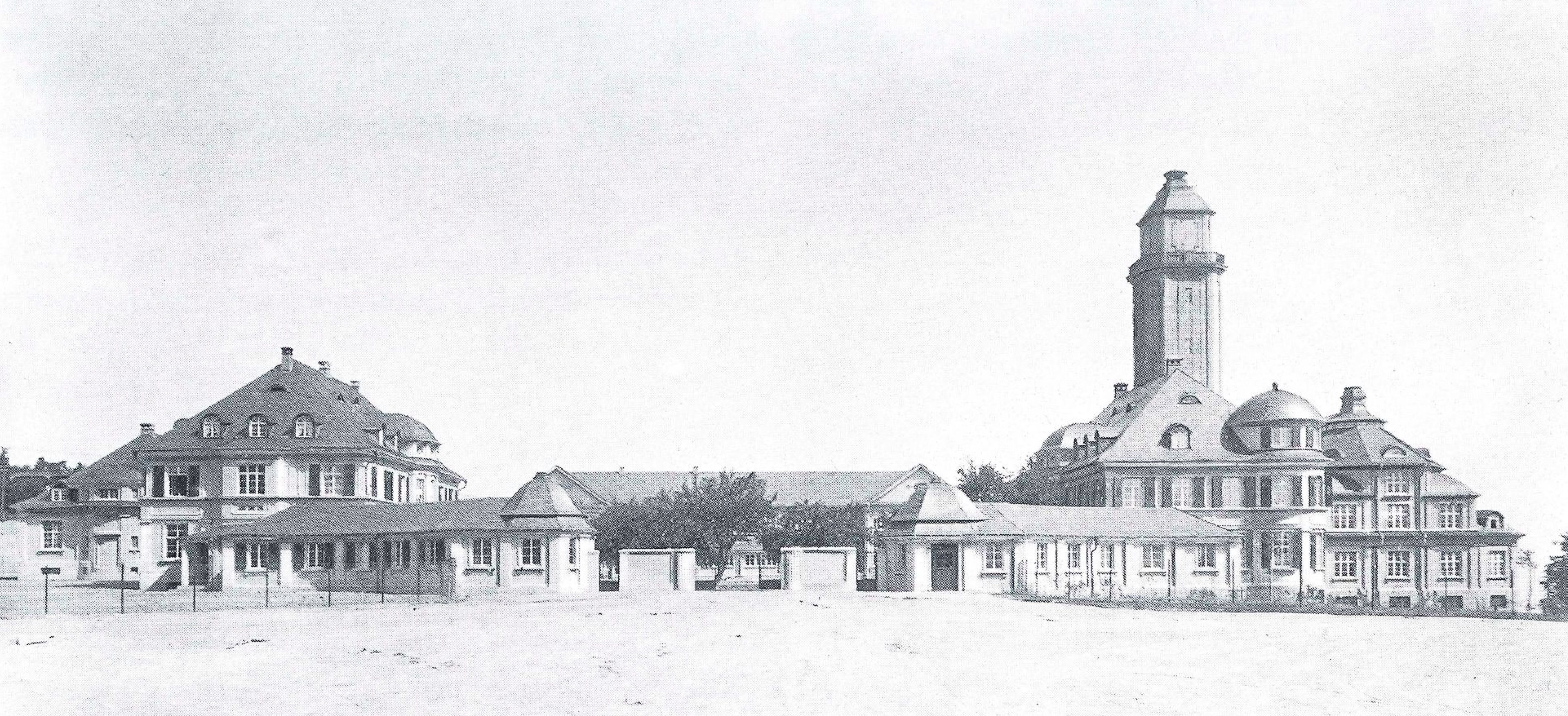 Dr. Geier mine near Bingen.